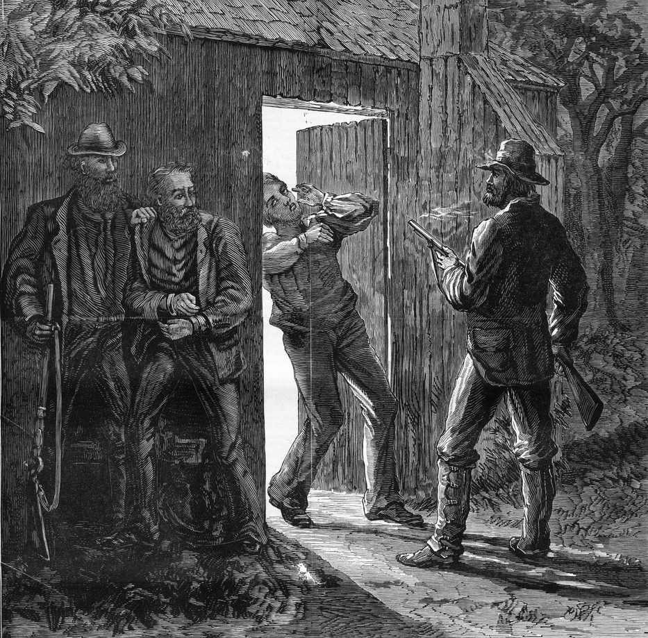 THE MURDER OF SHERRITT. Date(s) of creation: July 3, 1880. print : wood engraving. Reproduction rights owned by the State Library of Victoria Accession No: IAN03/07/80/97 Image No: mp004319